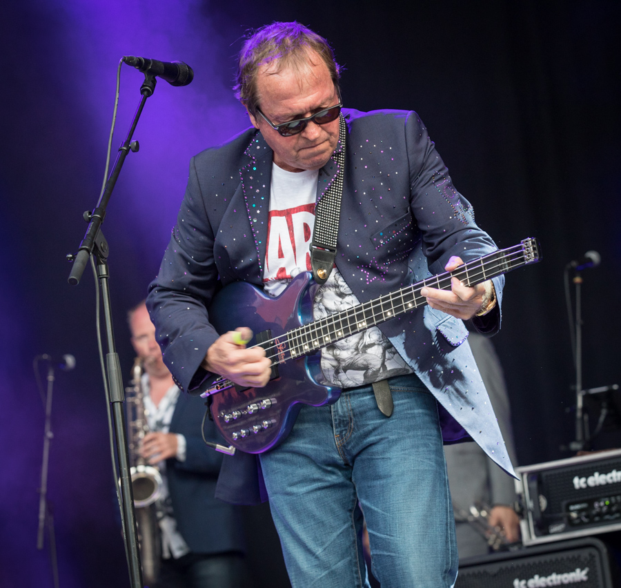 Mark King with Level 42 at the stage of Kirketorget. The concert was part of Kongsberg Jazzfestival and took place on 06. July 2017. Lineup:Mark King (bass guitar)Mike Lindup (keyboard)Unidentified (guitar)Unidentified (drums)Unidentified (saxophone)Unidentified (trumpet)Unidentified (trombone)